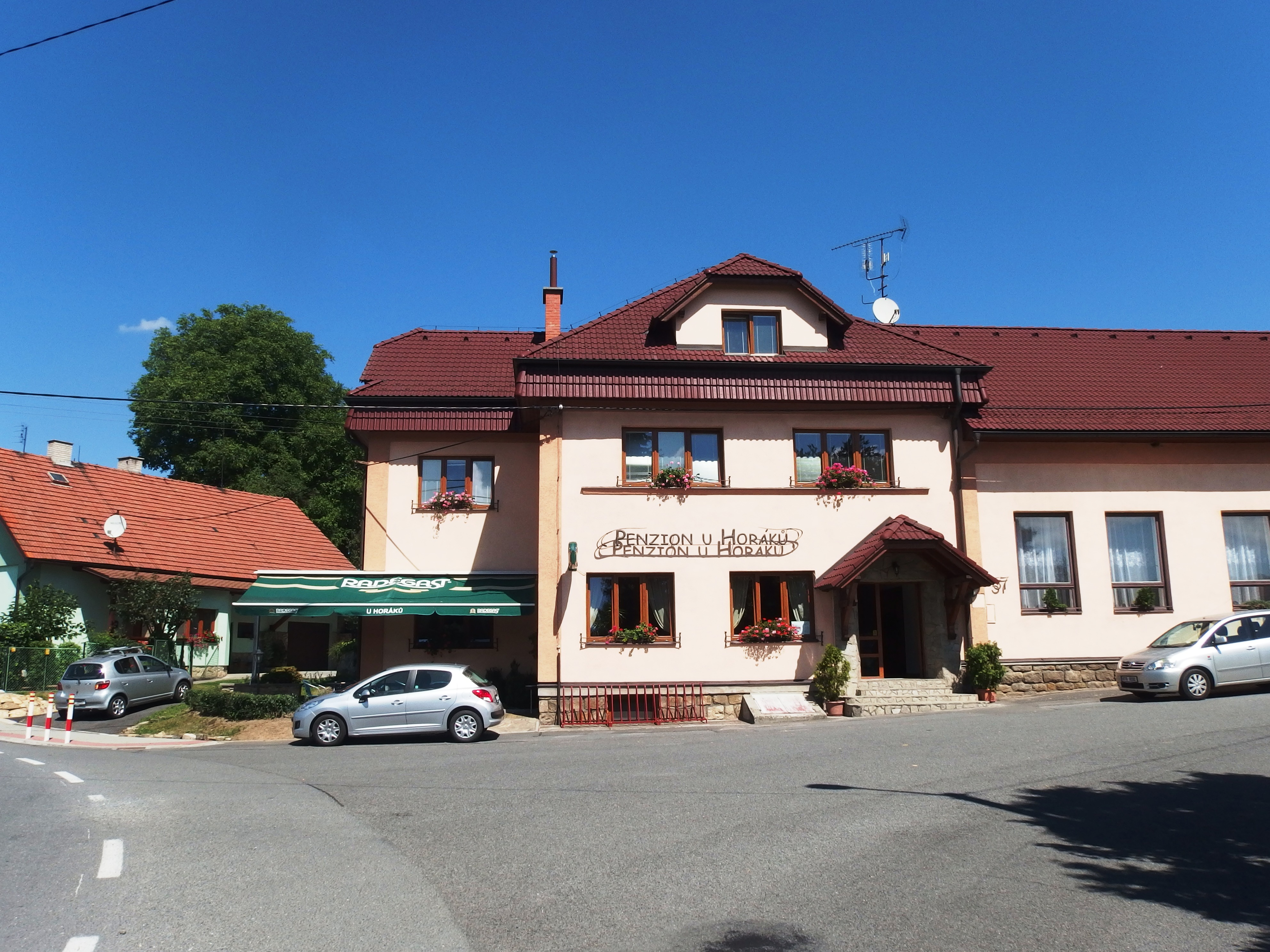 Starý Jičín, Nový Jičín District, part Palačov.